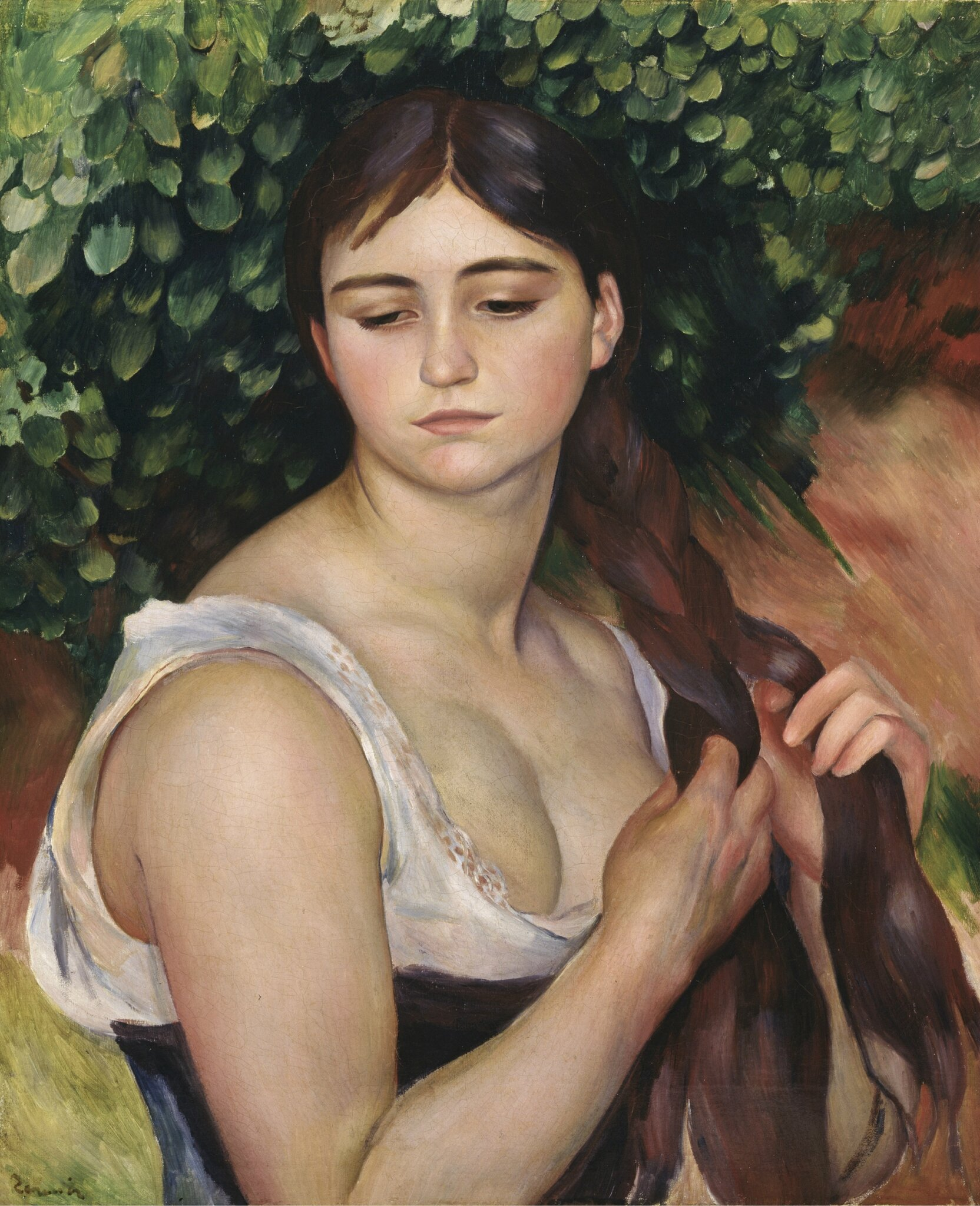 The Braid